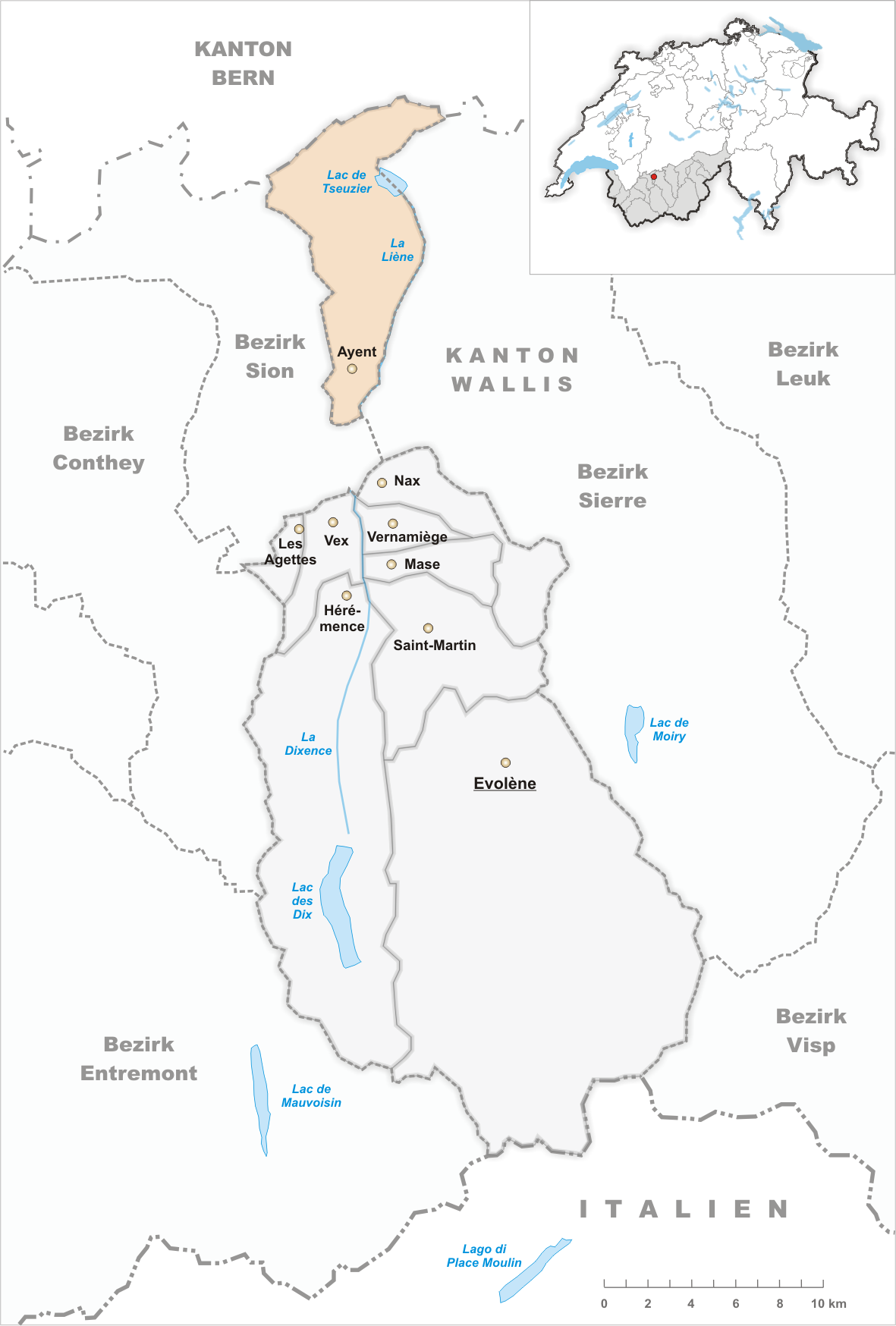 Municipality Ayent